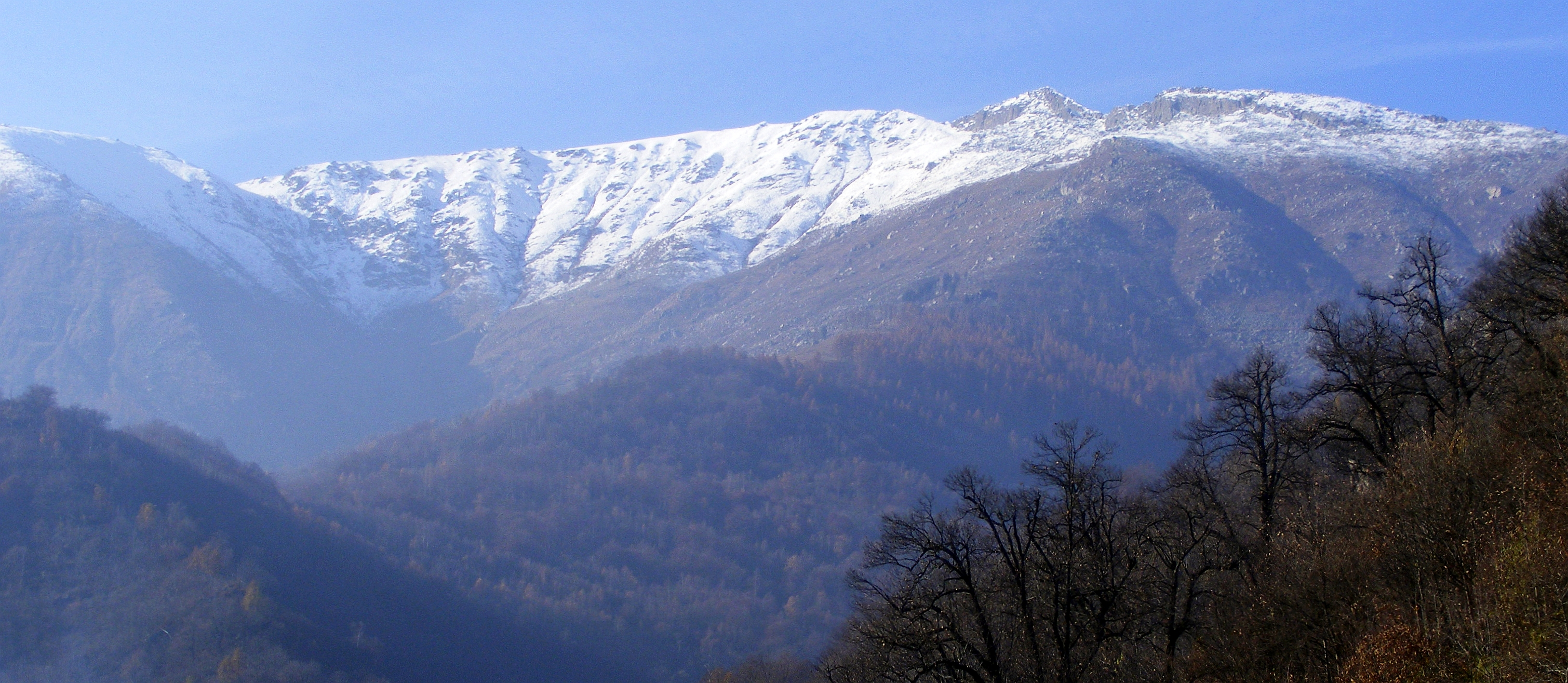 Mount Ostanetta seen from Pra d'Mill (Bagnolo, CN, Italy)